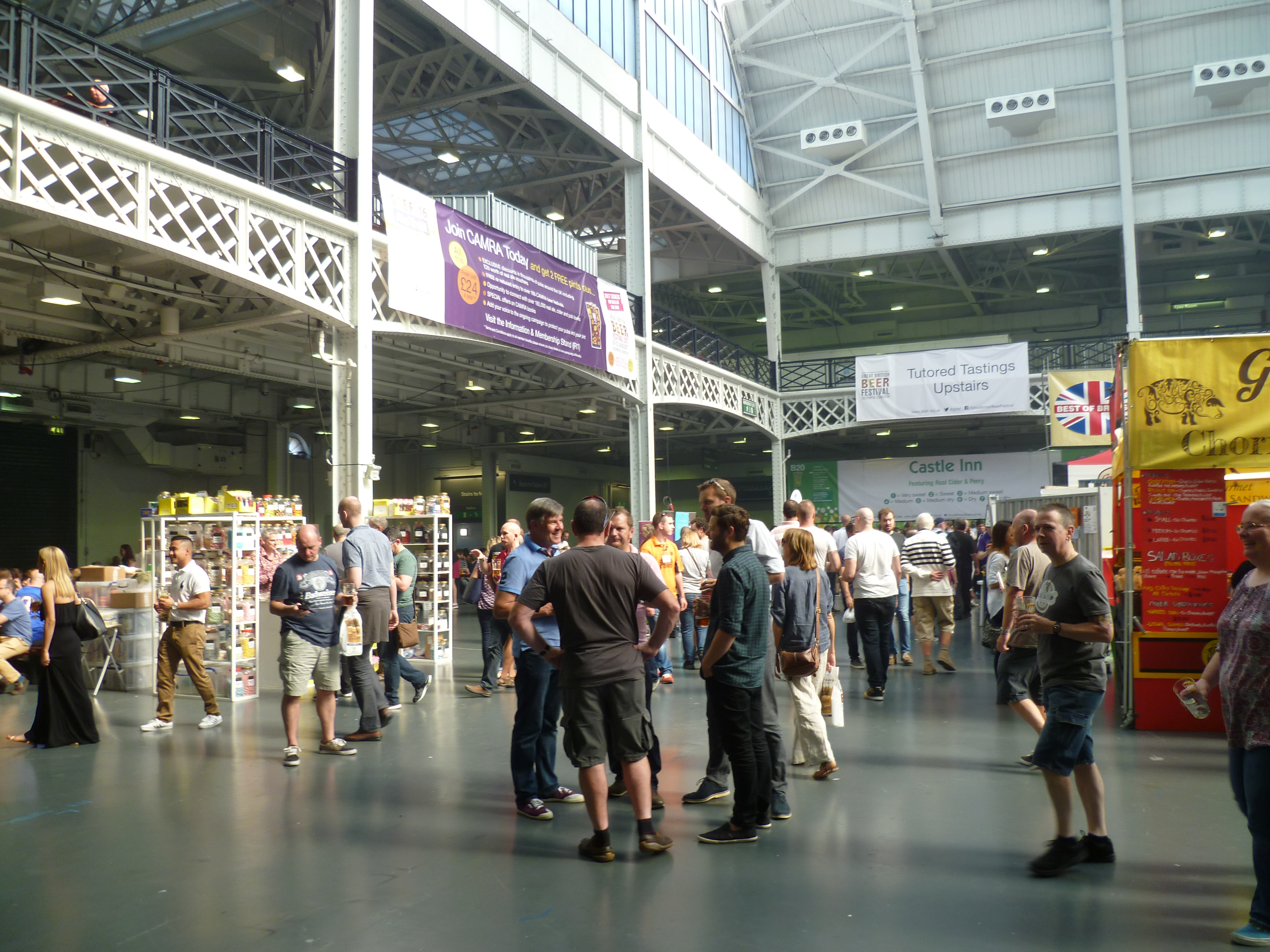 Great British Beer Festival 2016